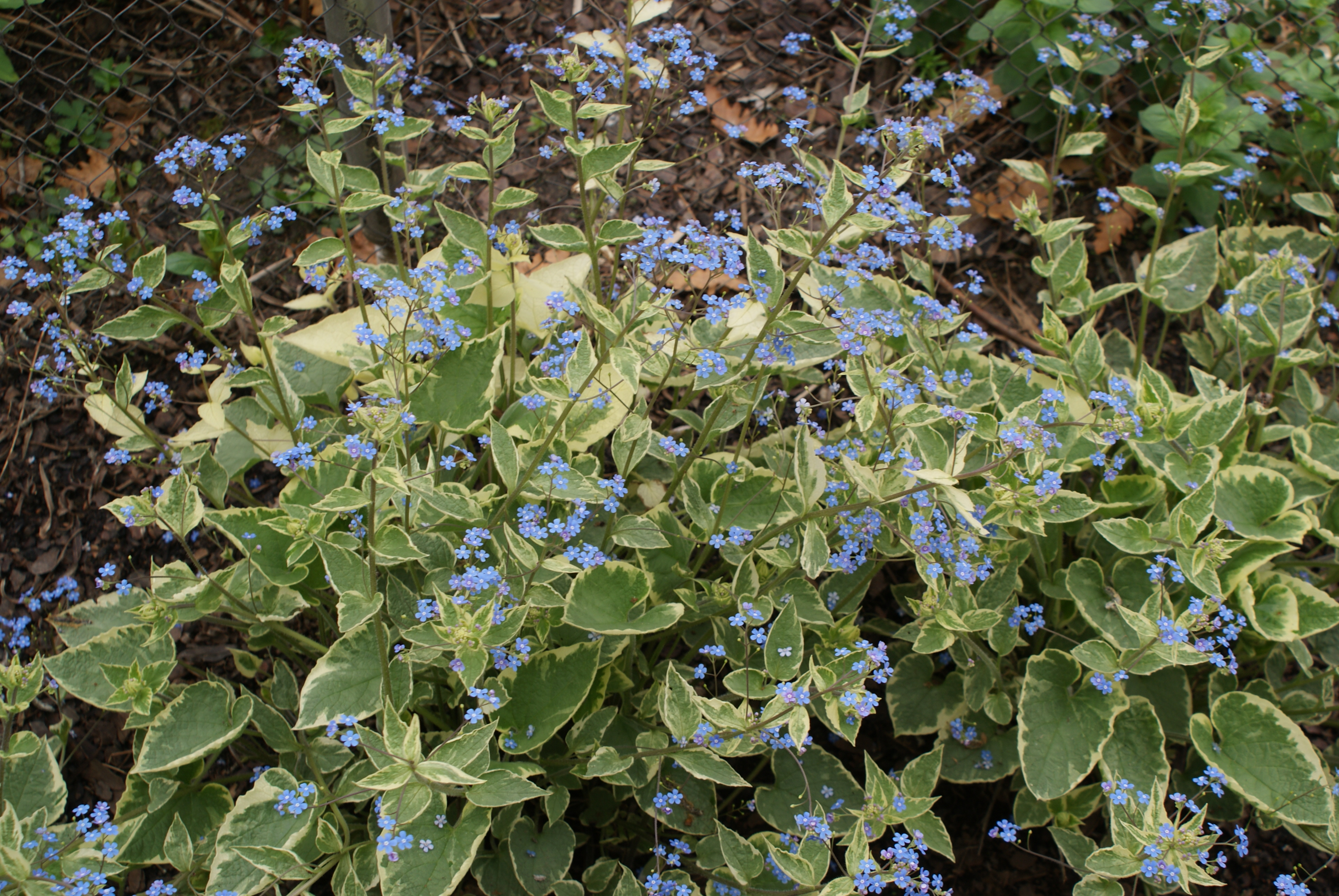 Brunnera macrophylla in Prague Zoo